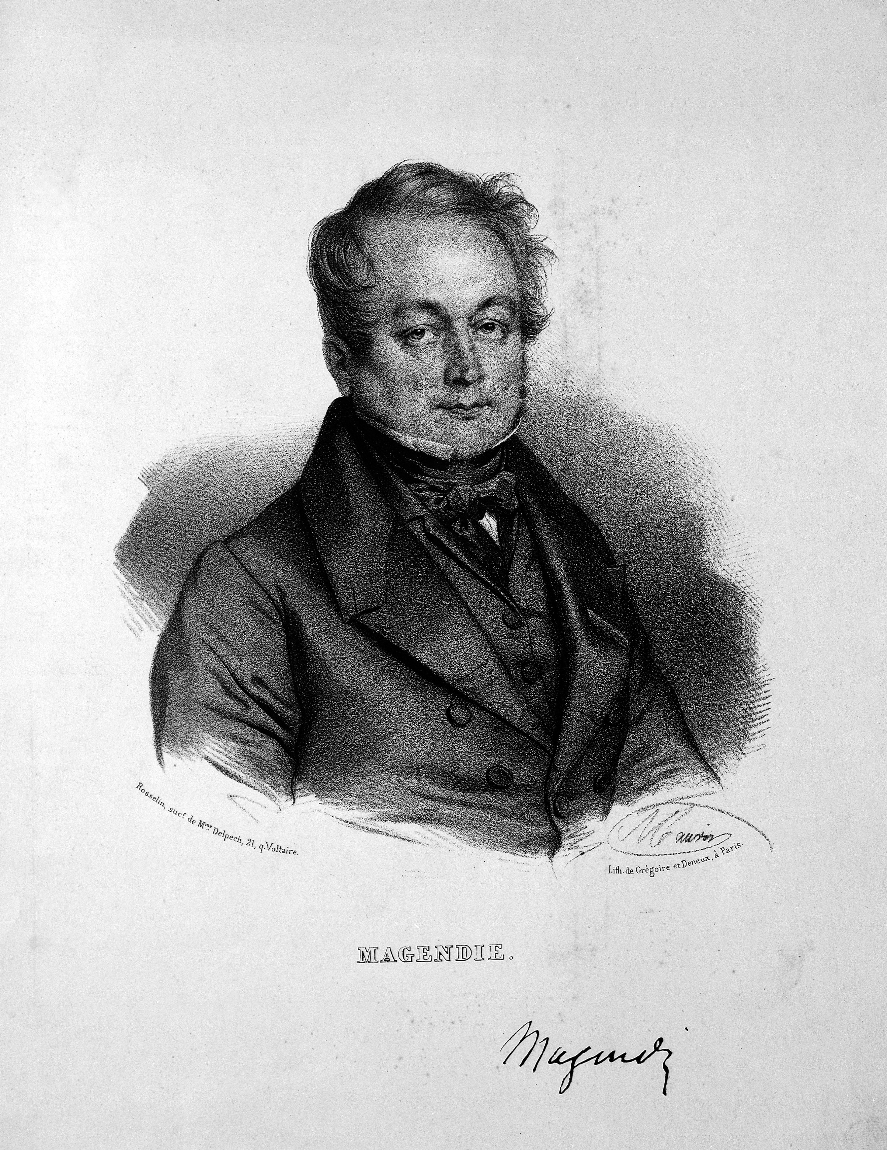 François Magendie. Lithograph by N. E. Maurin. Iconographic Collections Keywords: Nicolas-Eustache Maurin; Francois Magendie